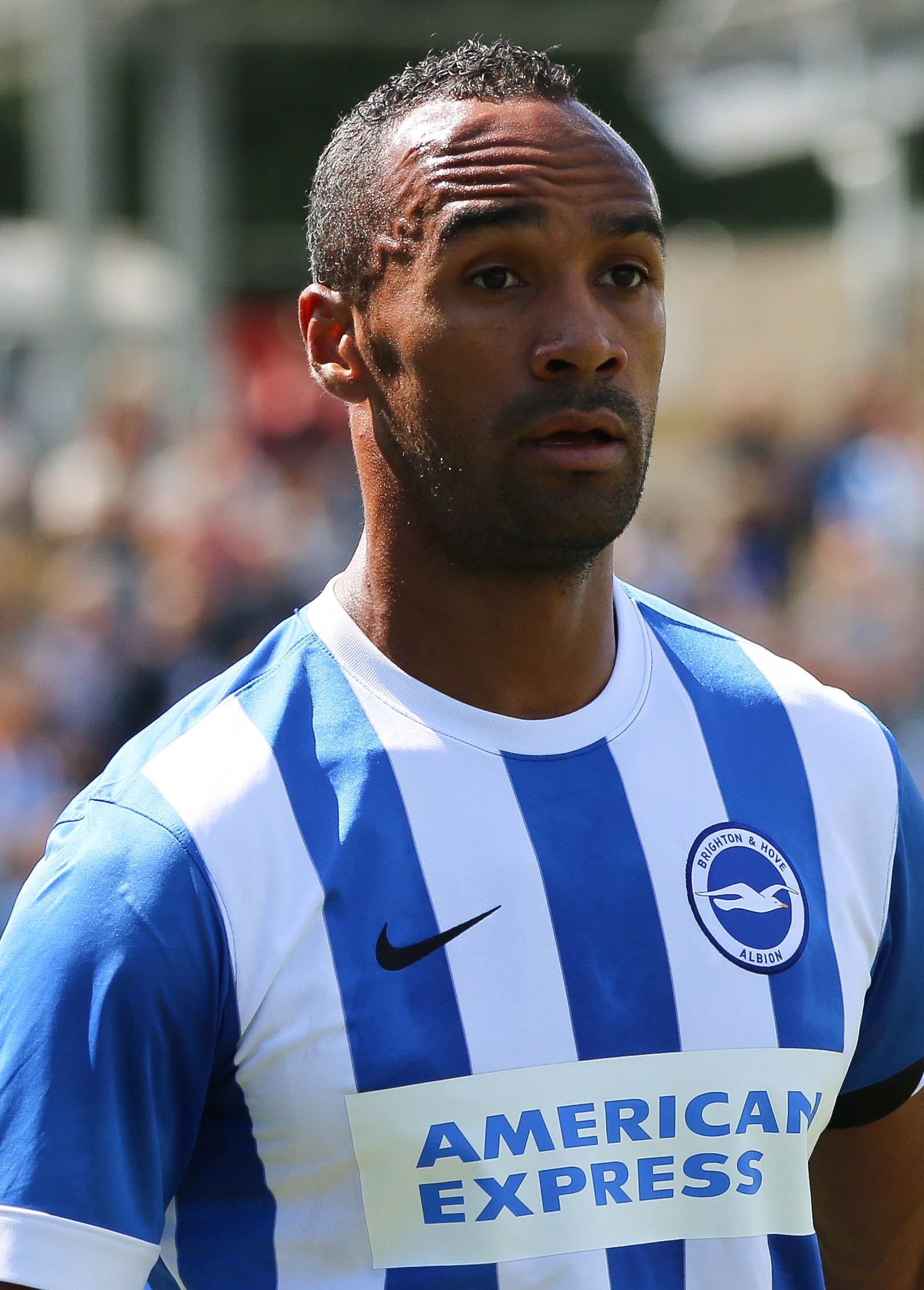 Lewes 0 BHA 0 18 July 2015-608.jpg